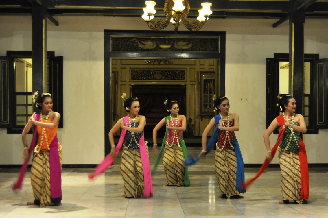 Gambyong Langenkusuma (Pangkur version of Mangkunegaran Palace) dancers, during performance at Prangwedanan, Mangkunegaran Palace, Surakarta.